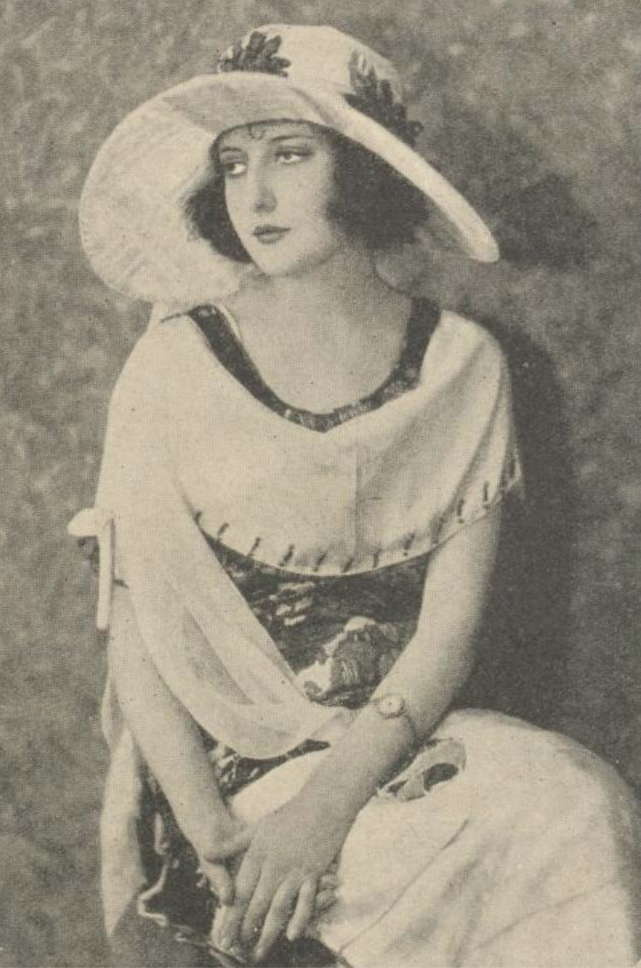 Jessica Harcourt (1905–1988) was an Australian model, authoress and actress, best known for playing a leading role in For the Term of His Natural Life (1927).